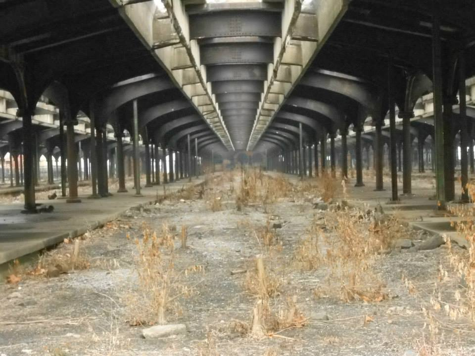 Communipaw Terminal train shed in December 2014